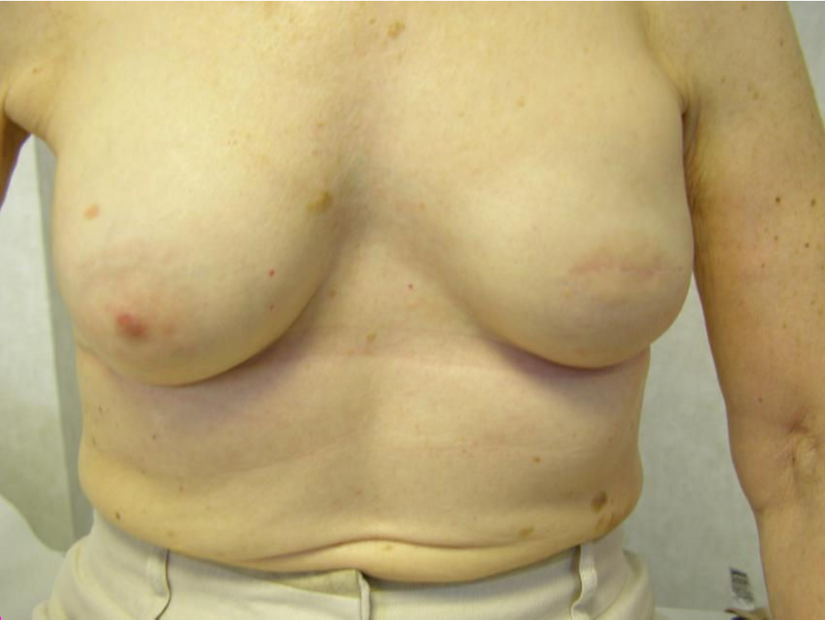 Skin sparing mastectomy and implant reconstruction. Left skin sparing mastectomy and implant reconstruction in a 70 year old woman